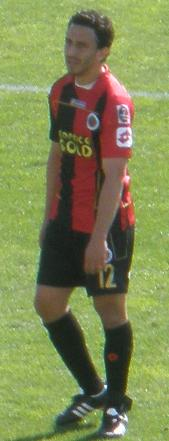 Randall Azofeifa, Costa Rican footballer.